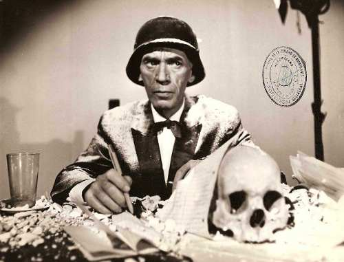 Raimundo Soto - actors from Uruguay